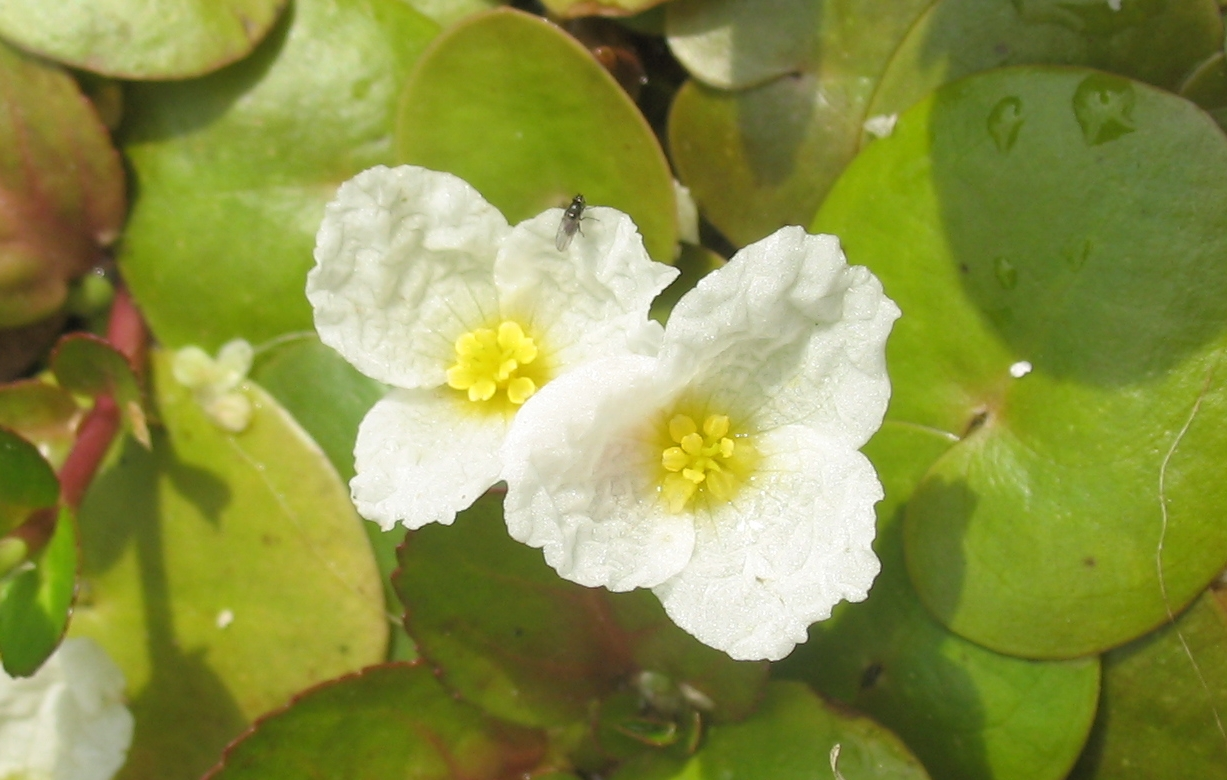 Hydrocharis morsus-ranae male flowers inflorescence